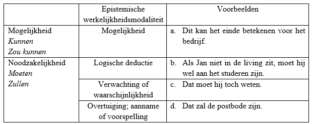 Epistemic modality with examples in Dutch